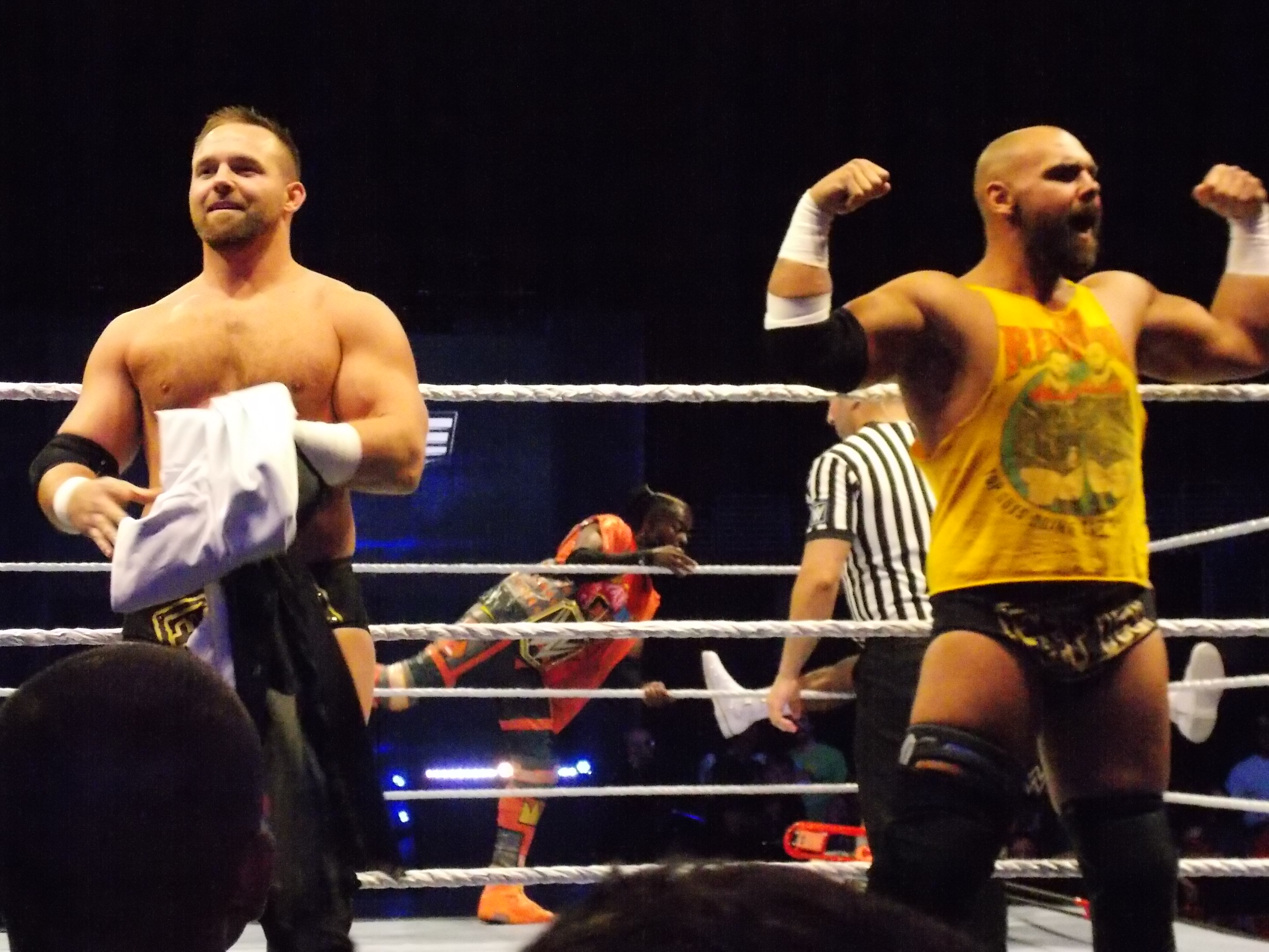 The Revival and Randy Orton vs. The New Day at a WWE Live Event House Show in Omaha, Nebraska, USA on Sunday, August 18, 2019